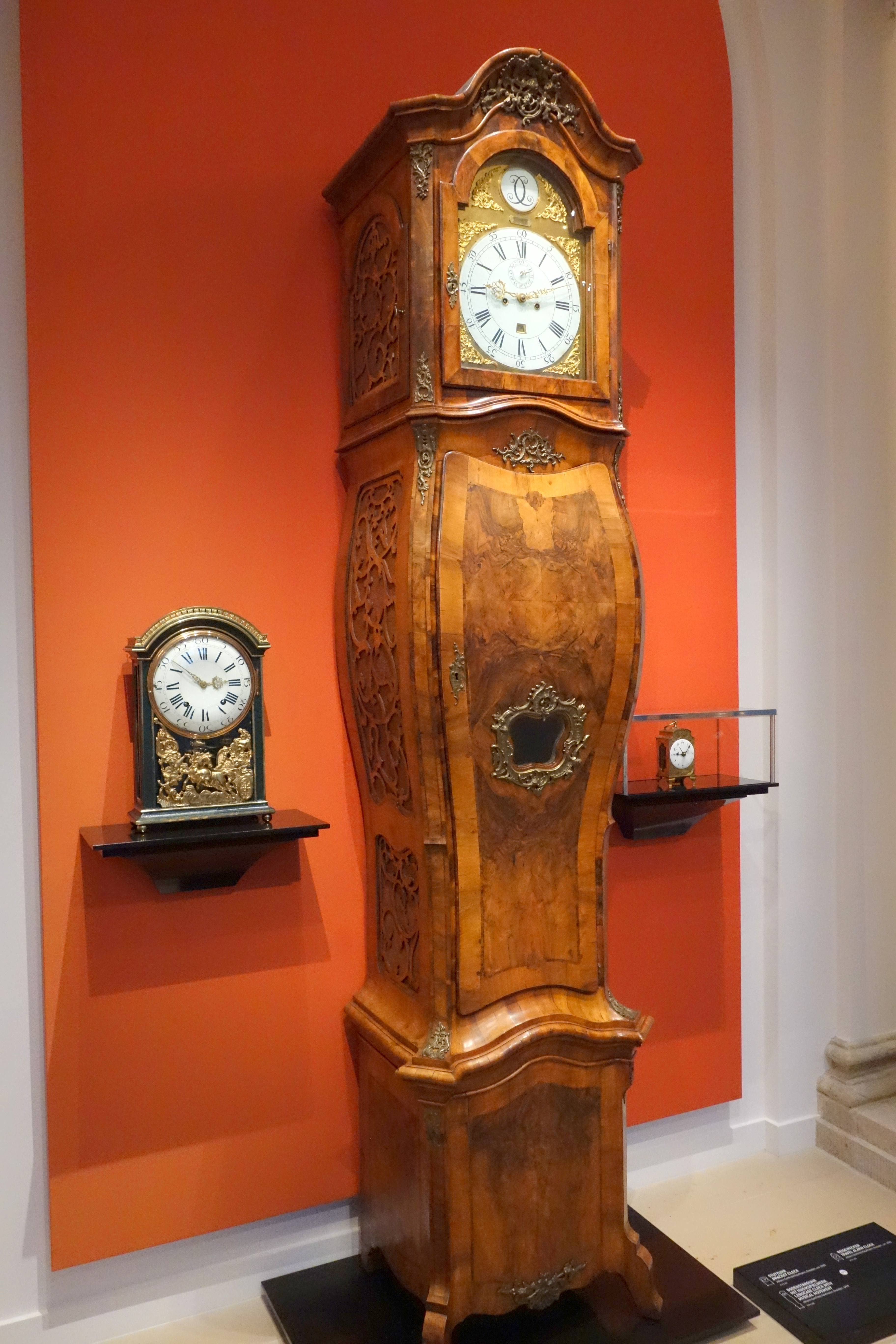 Exhibit in the Mathematisch-Physikalischer Salon (Zwinger), Dresden, Germany. This artwork is old enough so that it is in the public domain.